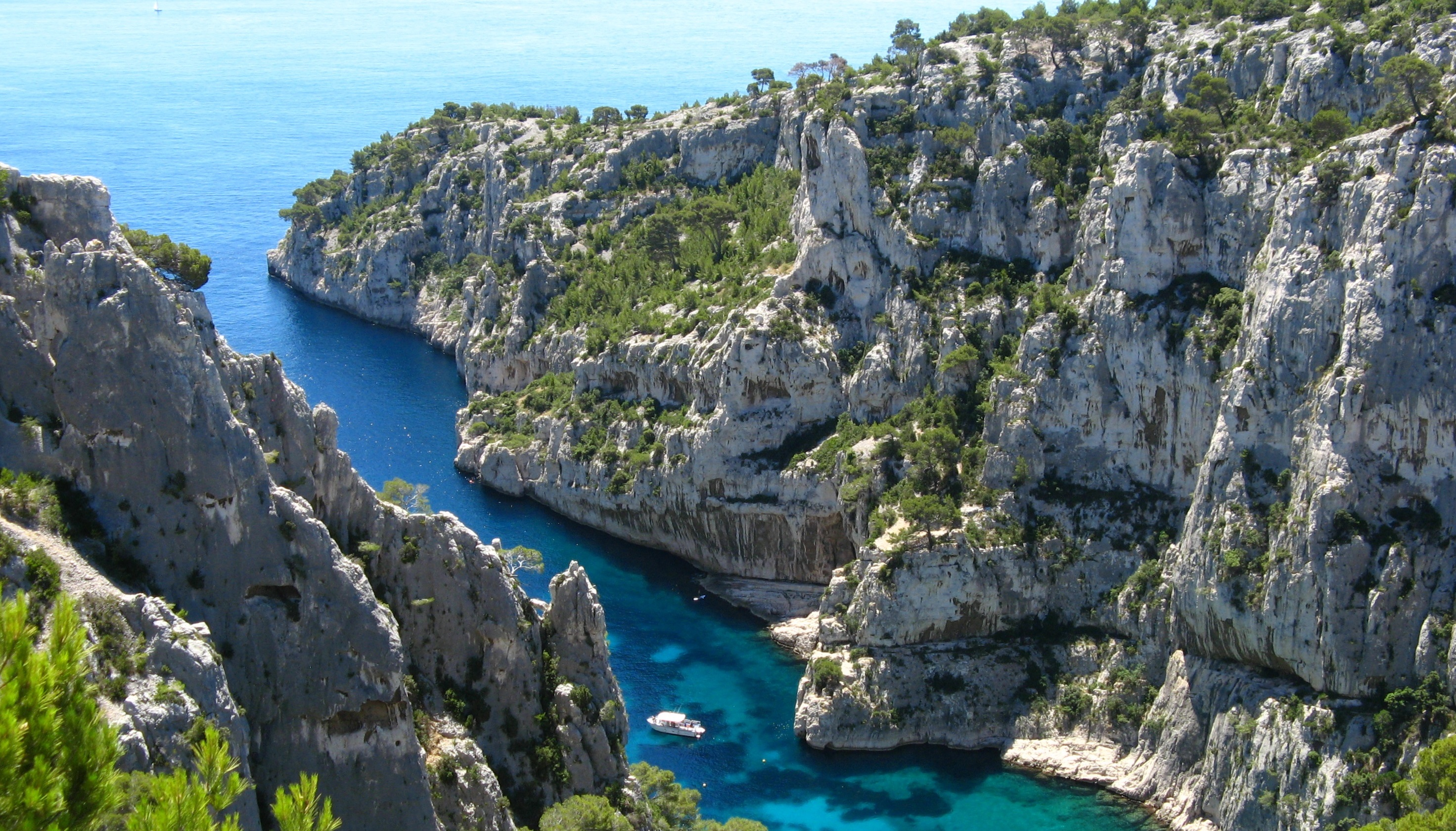 Calanque d'En-vau near Cassis, France